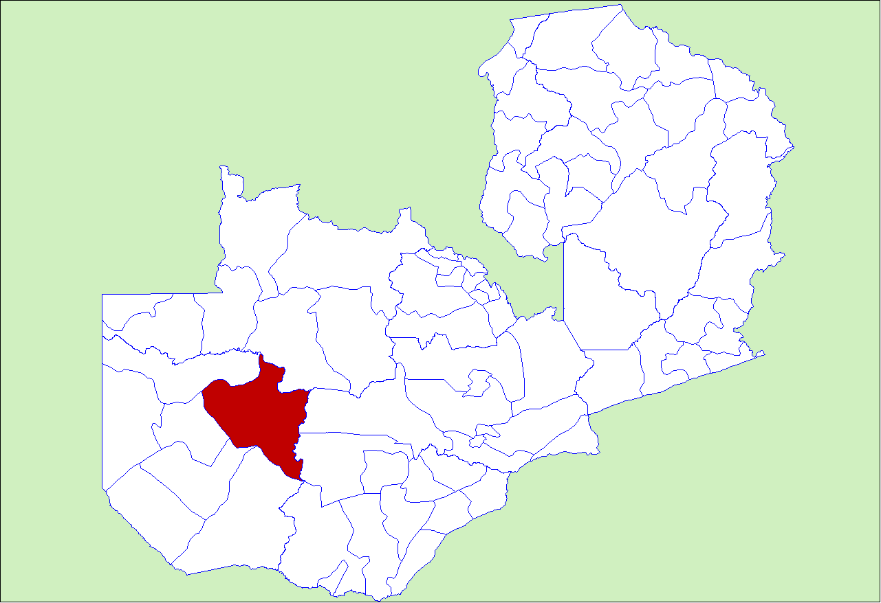 District locator in Zambia